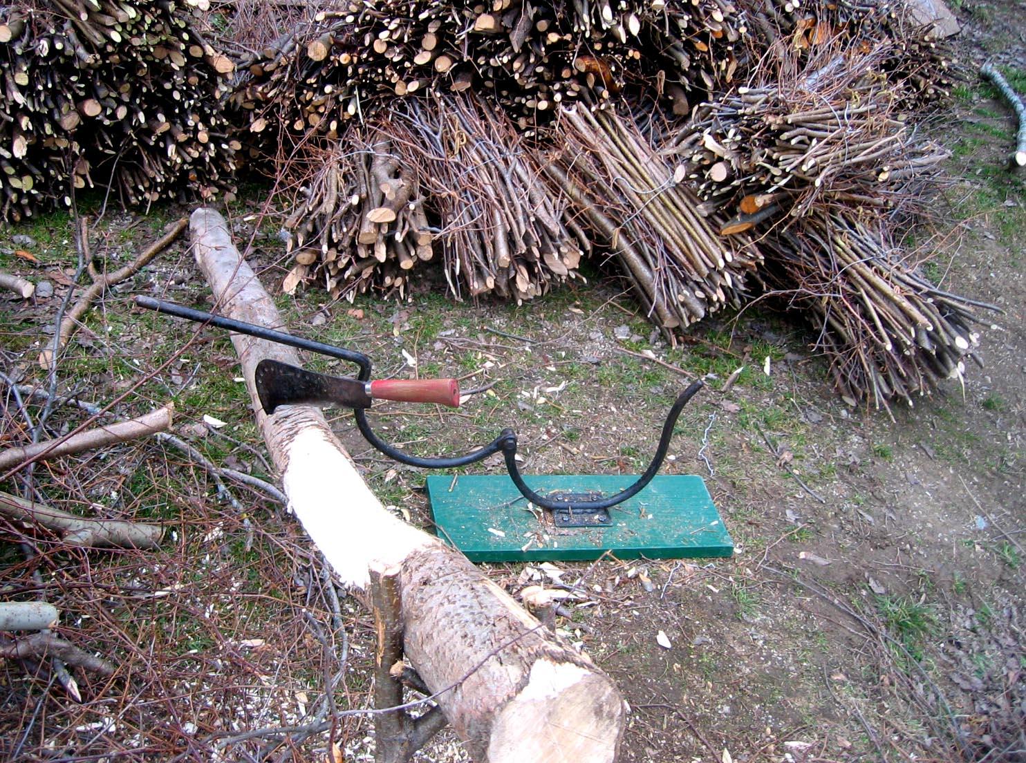 Butare (wood branches - fire-heating) - slovenian procedure of making "butare"(= plural from "butara") photo:Ziga 09:16, 25 February 2007 (UTC)